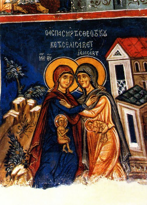 14th-century wall painting of the Visitation from Timios Stavros Church in Pelendi, Cyprus